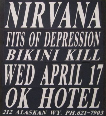 A poster for a concert held on April 17, 1991 at the OK Hotel in Seattle, Washington. The concert consisted of three acts: Nirvana, Fitz of Depression (incorrect spelt name on the poster) and Bikini Kill. Apparently, posters such as these hung on telephone poles in downtown Seattle to promote the concert. The concert itself is mostly known for being the first time Nirvana played "Smells Like Teen Spirit" live. The poster itself is cropped to avoid having any copyrighted material on it.